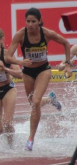 Beverly Ramos, Crystal Palace Grand Prix, Diamond League 2012